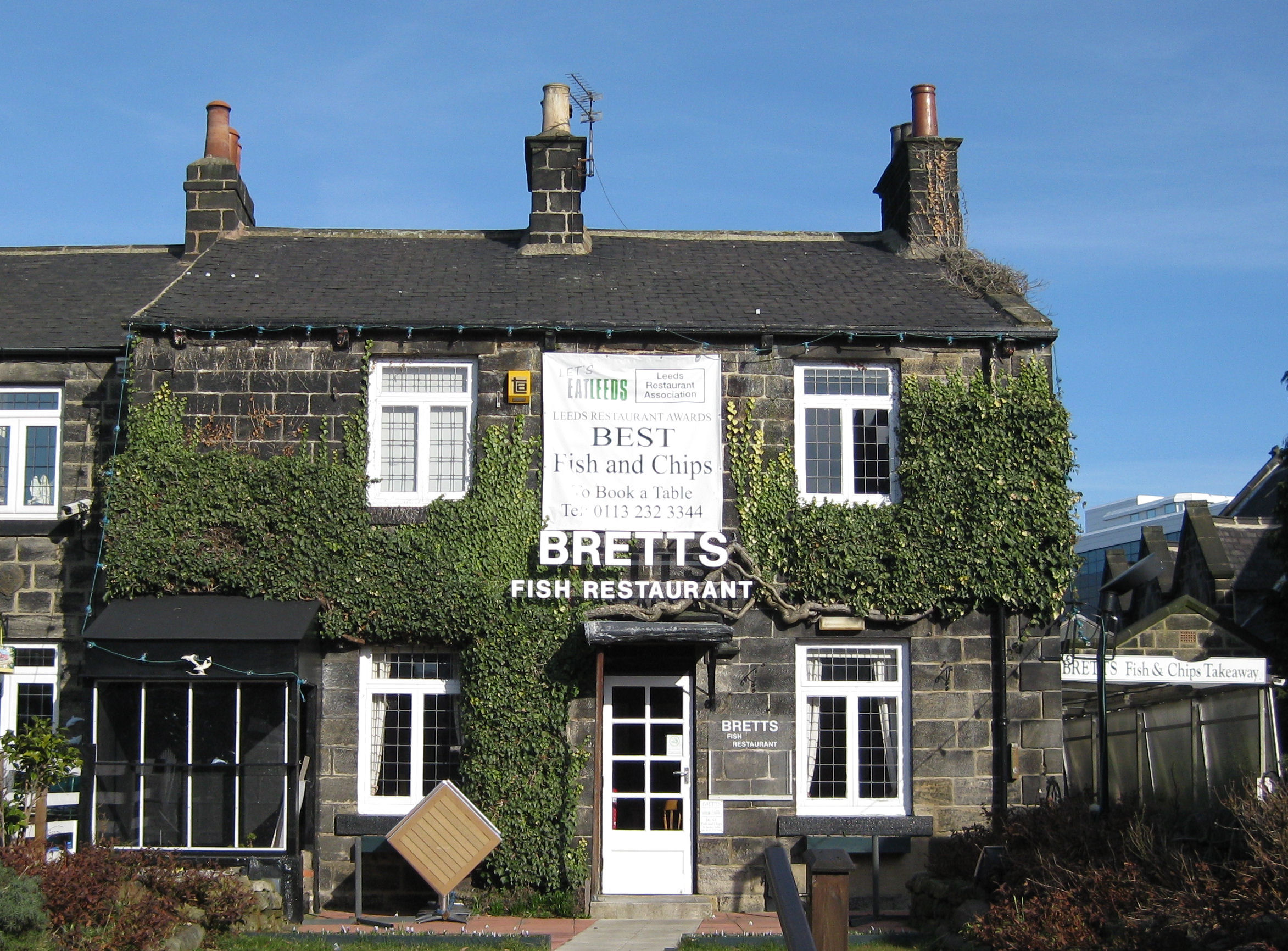 Brett's Fish Restaurant, 12-14 North Lane, Headingley, Leeds LS6 3HE, UK